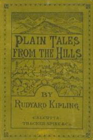 This is a low-resolution scanned image of the cover of the first edition of Plain Tales from the Hills, published by Thacker, Spink and Company, Calcutta, in 1888.